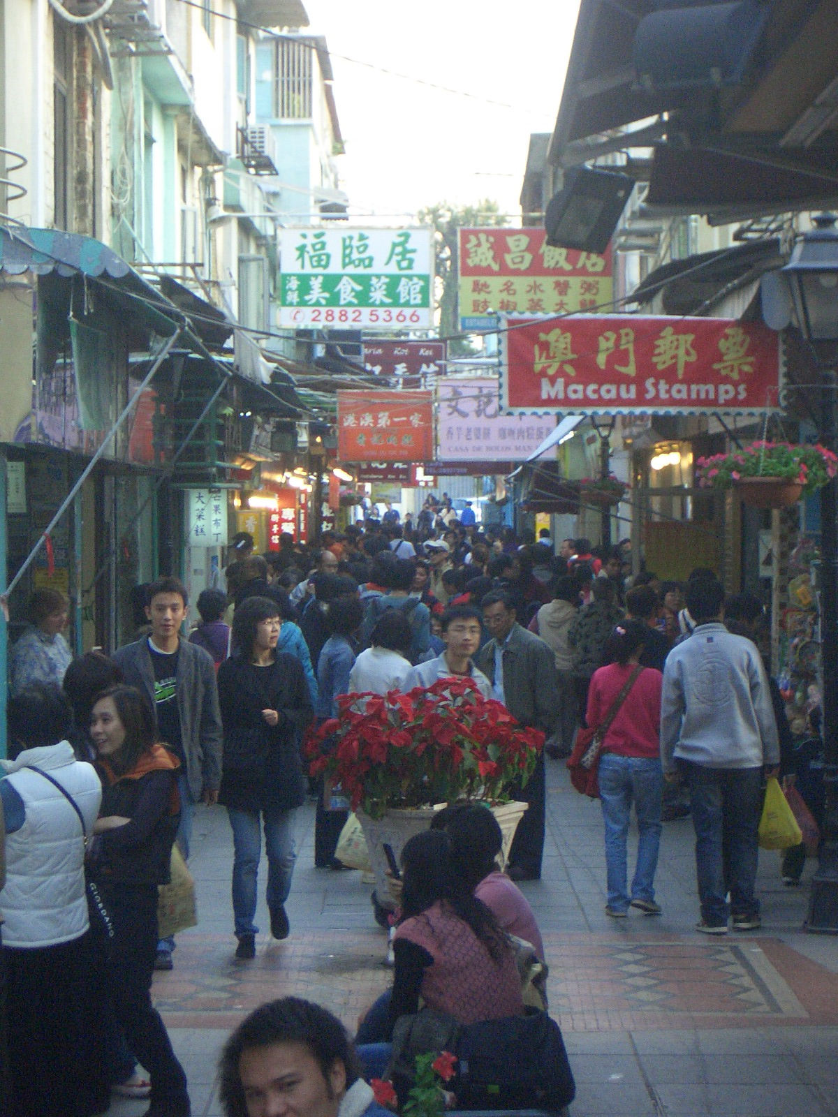 photo taken by 9old9